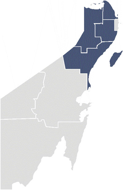 Map of the First Federal Electoral District of the State of Quintana Roo, México.